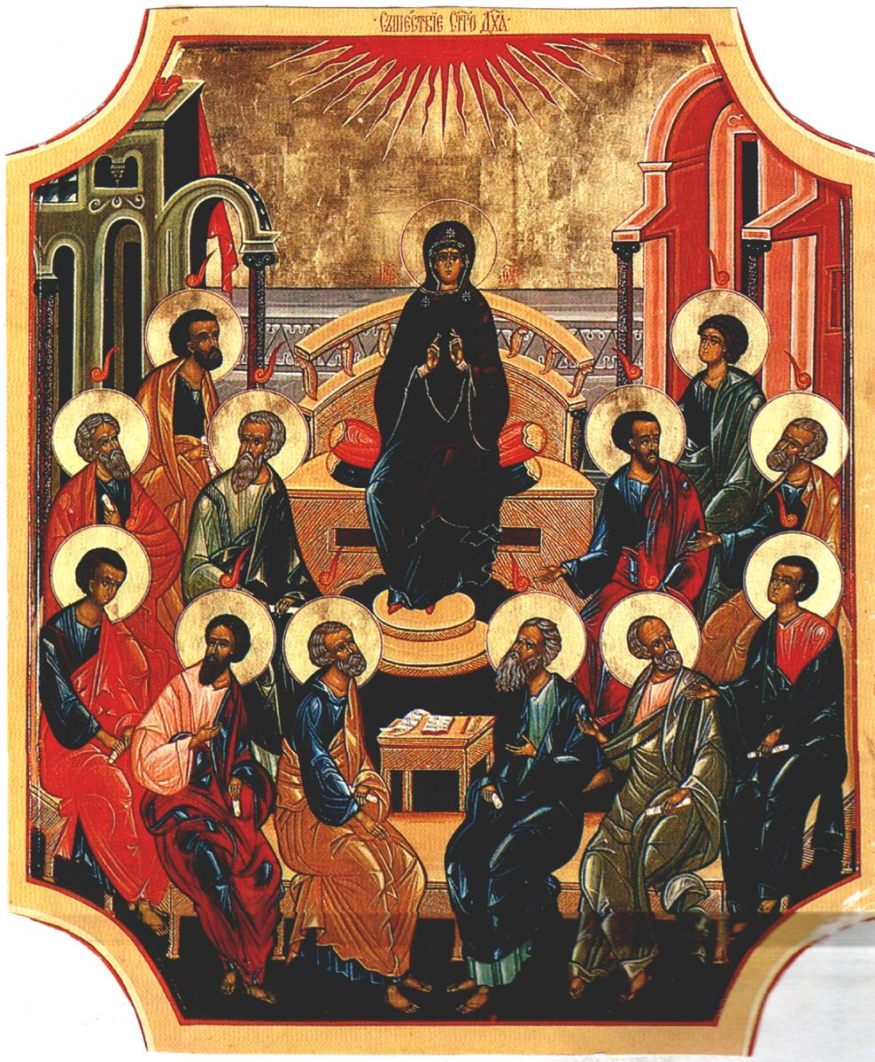 День Пятидесятницы значок „Πεντηκοστή εικονίδιο“